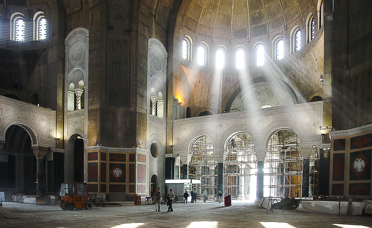 light in the church to the west